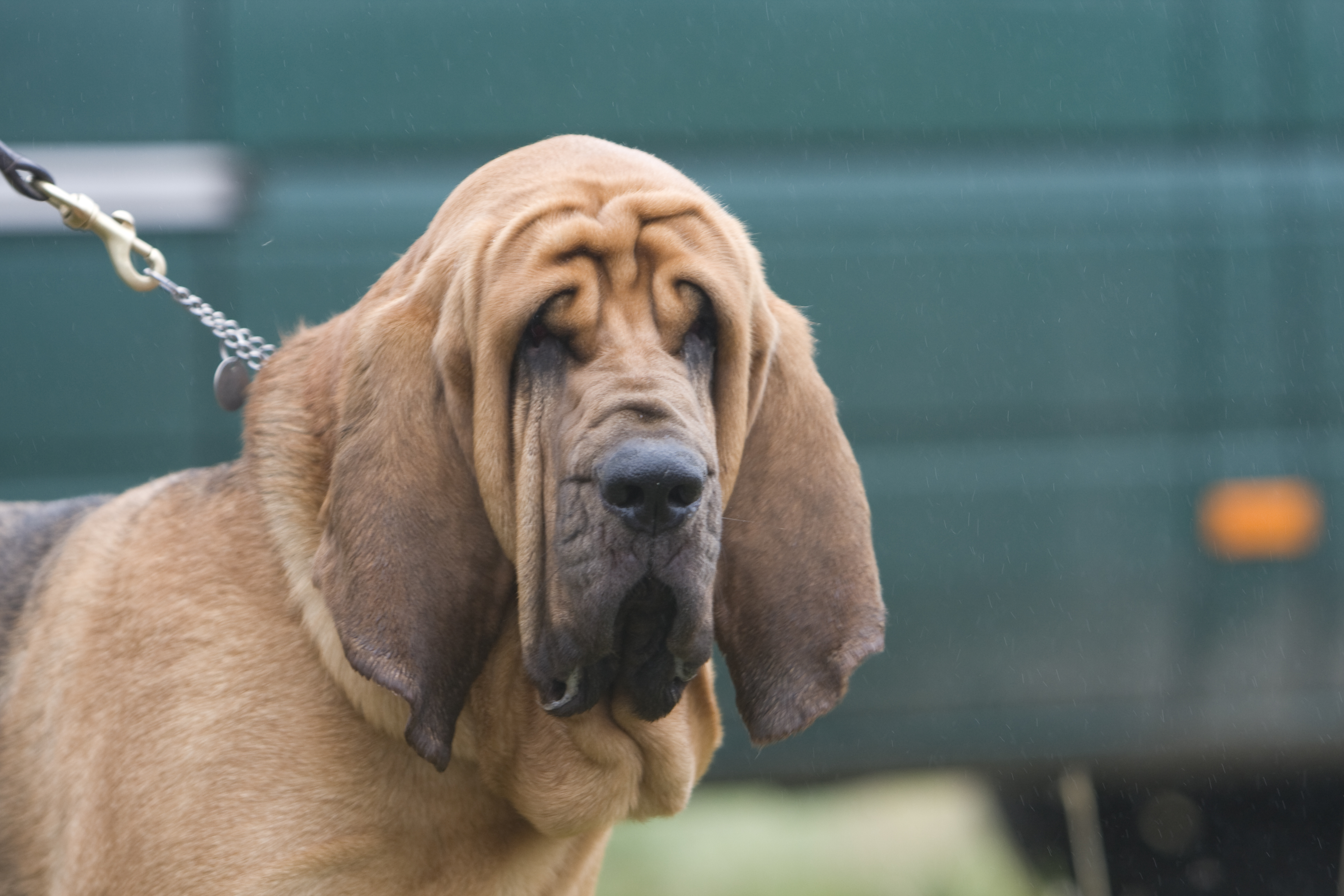 The Bloodhound Club Trials, Senior Stake, Alton, Thursday 28 February 2008